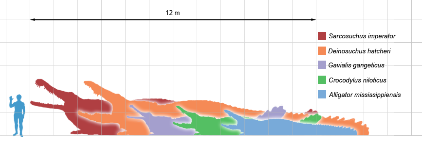 Size comparison of the largest recorded examples of several crocodilian species (typical sizes in many cases are much smaller): Sarcosuchus imperator Deinosuchus hatcheri Gavialis gangeticus Crocodylus niloticus Alligator mississippiensis, and a human.